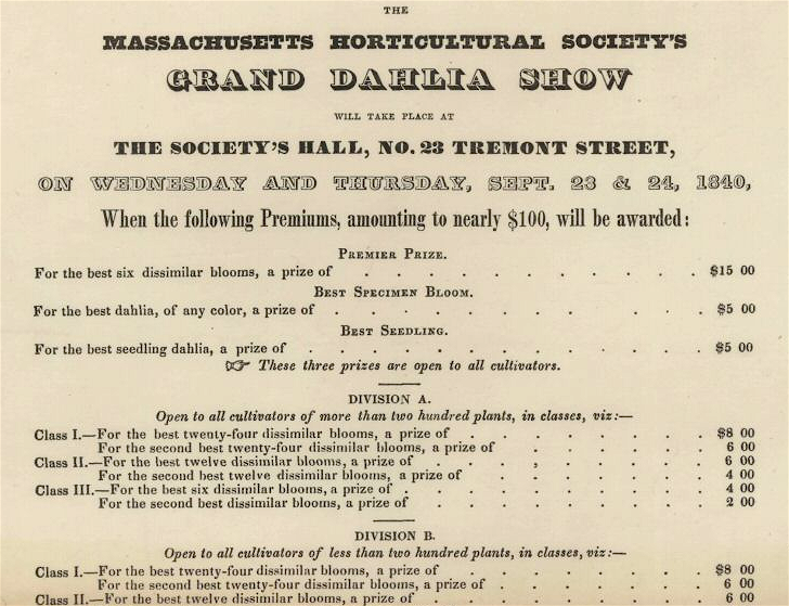 The Massachusetts Horticultural Society's grand dahlia show will take place at the society's hall, no. 23 Tremont Street, on Wednesday and Thursday, Sept. 23 & 24, 1840, when the following premiums, amounting to nearly $100, will be awarded ...